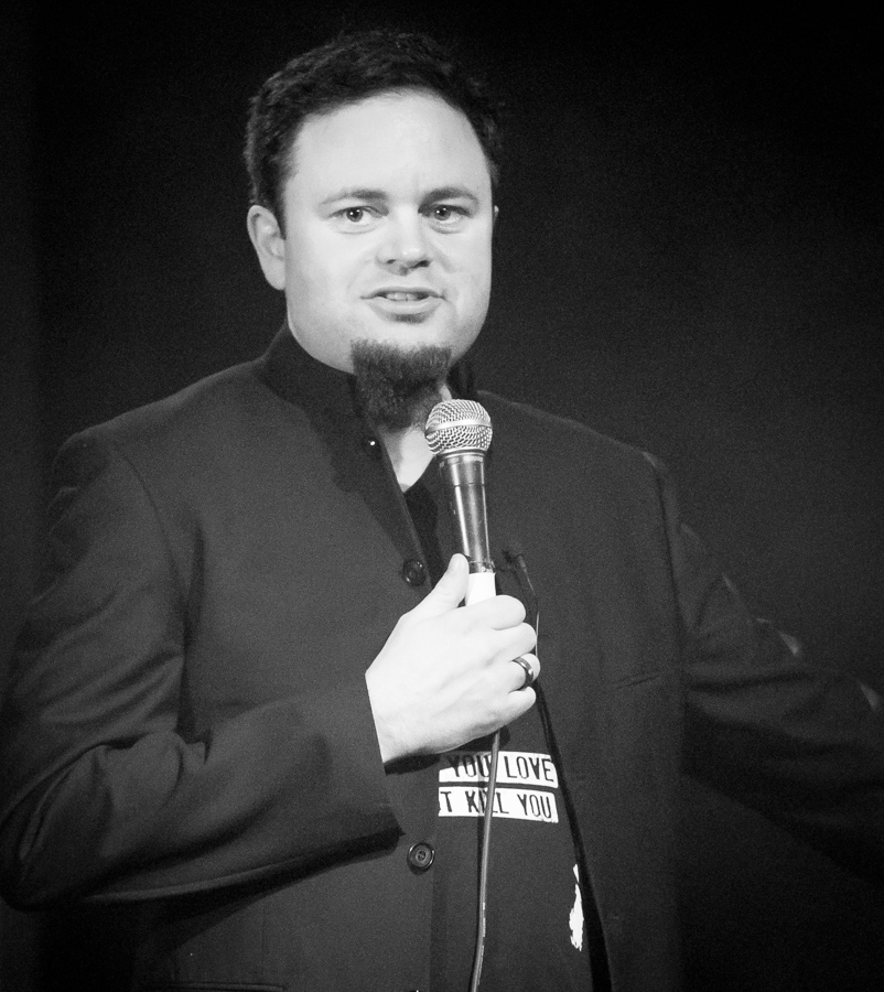 Dag Sørås on the stage at Late Night Fredag on Parkteatret. The comedy event took place on 27. January 2017 in Oslo as part of Crap Comedy festival 2017. Lineup: Sofie Hagen (comedian) Dag Sørås (comedian) Martin Beyer-Olsen (comedian) Ahmed Mamow (comedian) Christoffer Schjelderup (comedian) Atle Antonsen (comedian)